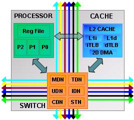 Block diagram of Tile inside Tilera's TILEPro64 multicore processor